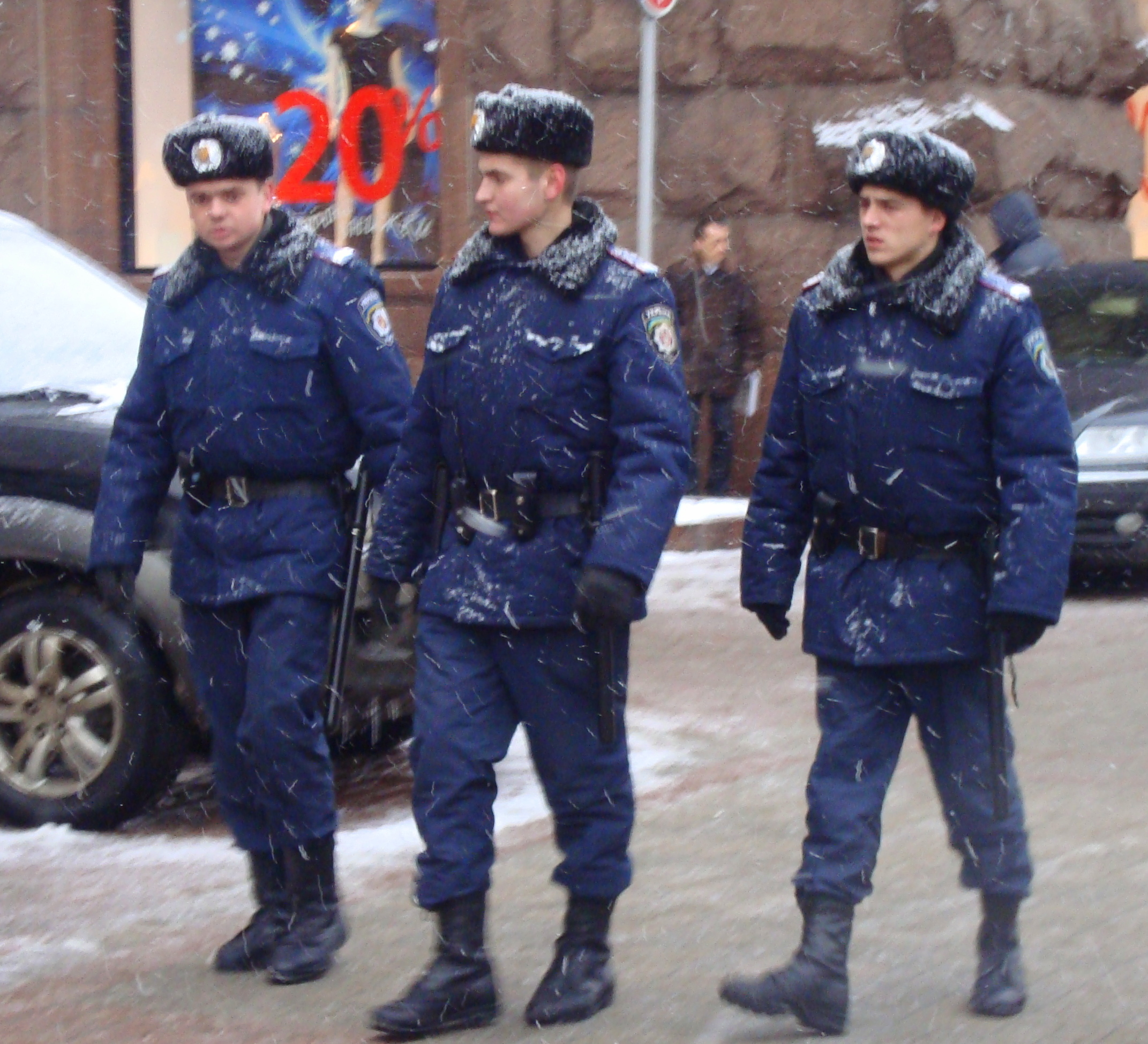 Ukrainian police officers patrol Khreschatik Street in central Kiev, Ukraine